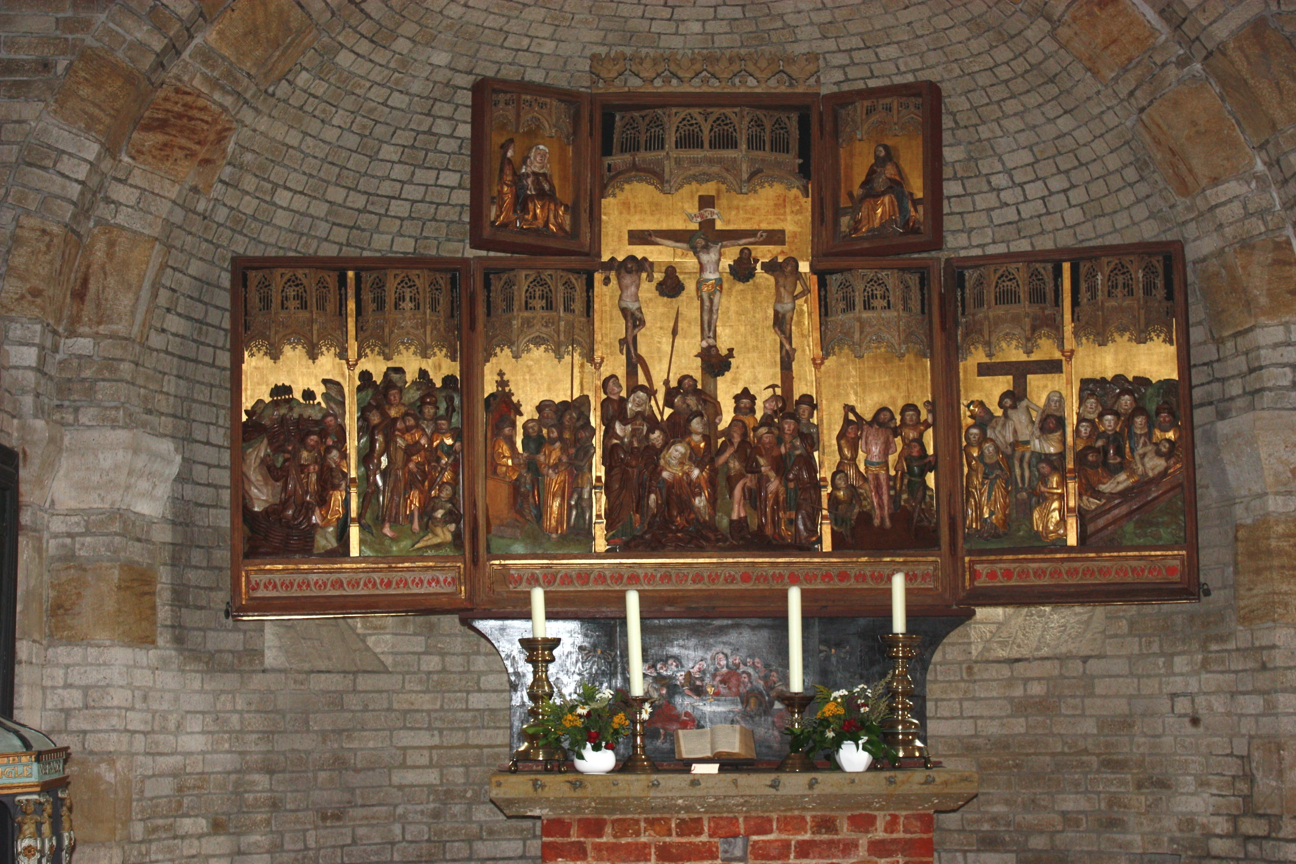 Pellworm, Kirche St.Salvator - Der Altar This is a photograph of an architectural monument. .1